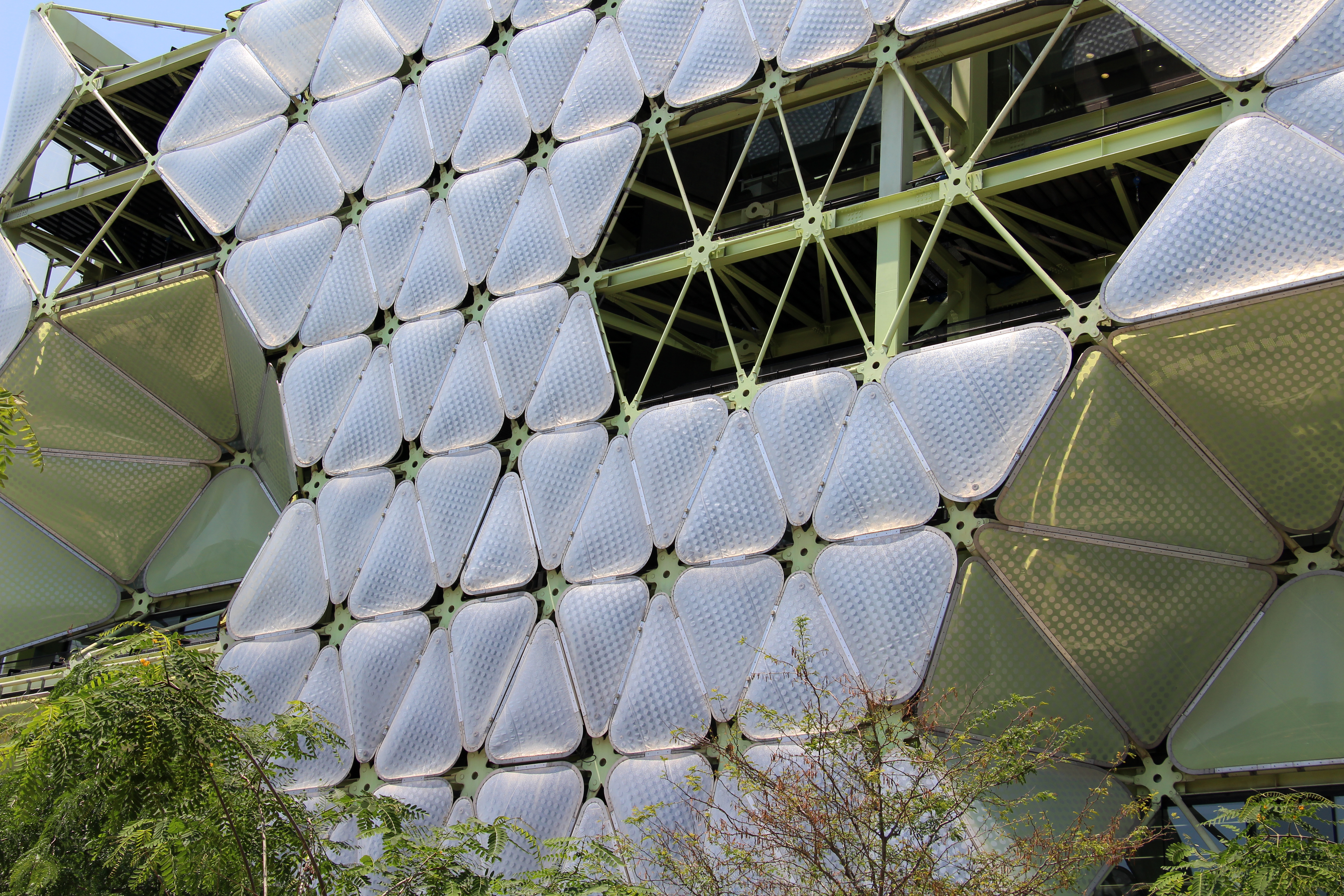 Barcelona - Edifici Media-TIC